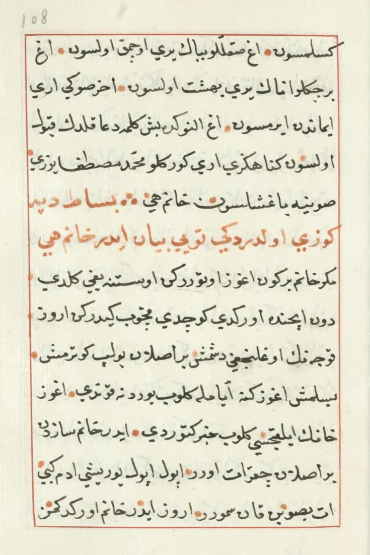 Basat kills Tepegez (in red). Kitab-i Dedem Korkut